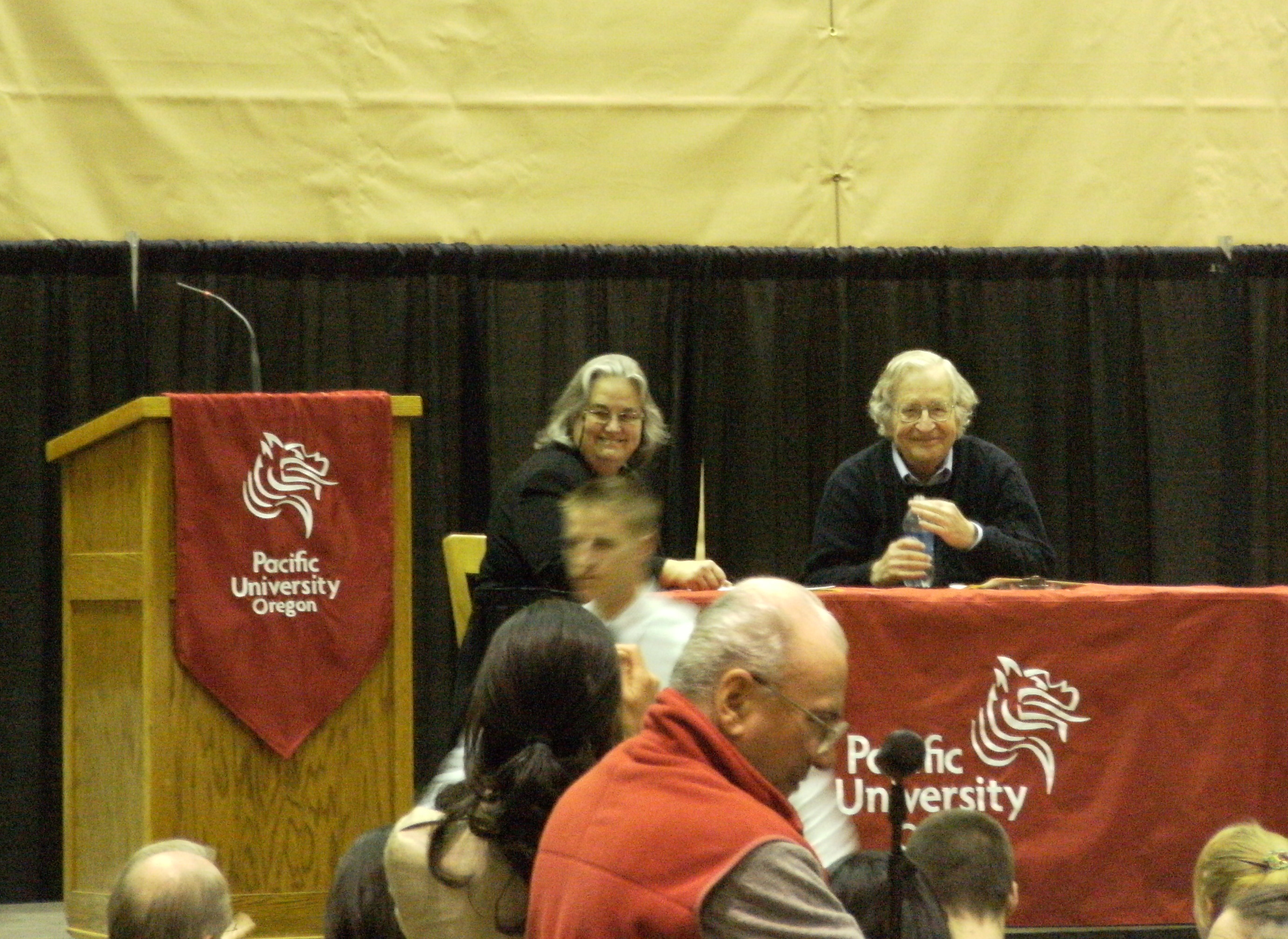 Dr. Chomsky lectures on "Prospects for Peace in the Middle East." The forum was Pacific University, Forest Grove, Oregon.